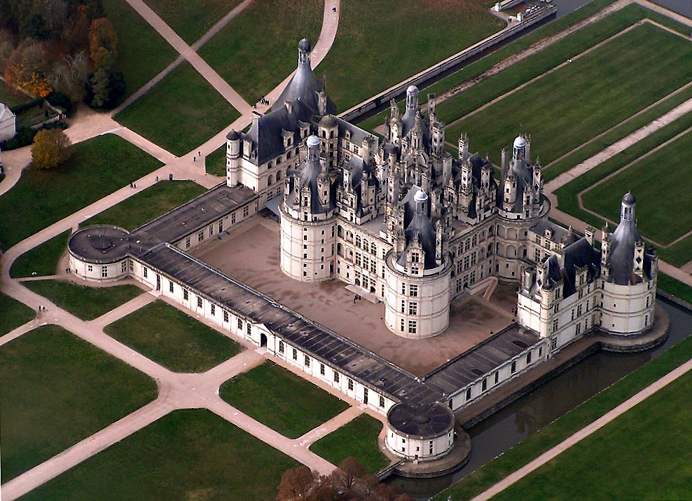 Captain Birdseye view of the château de Chambord, France.